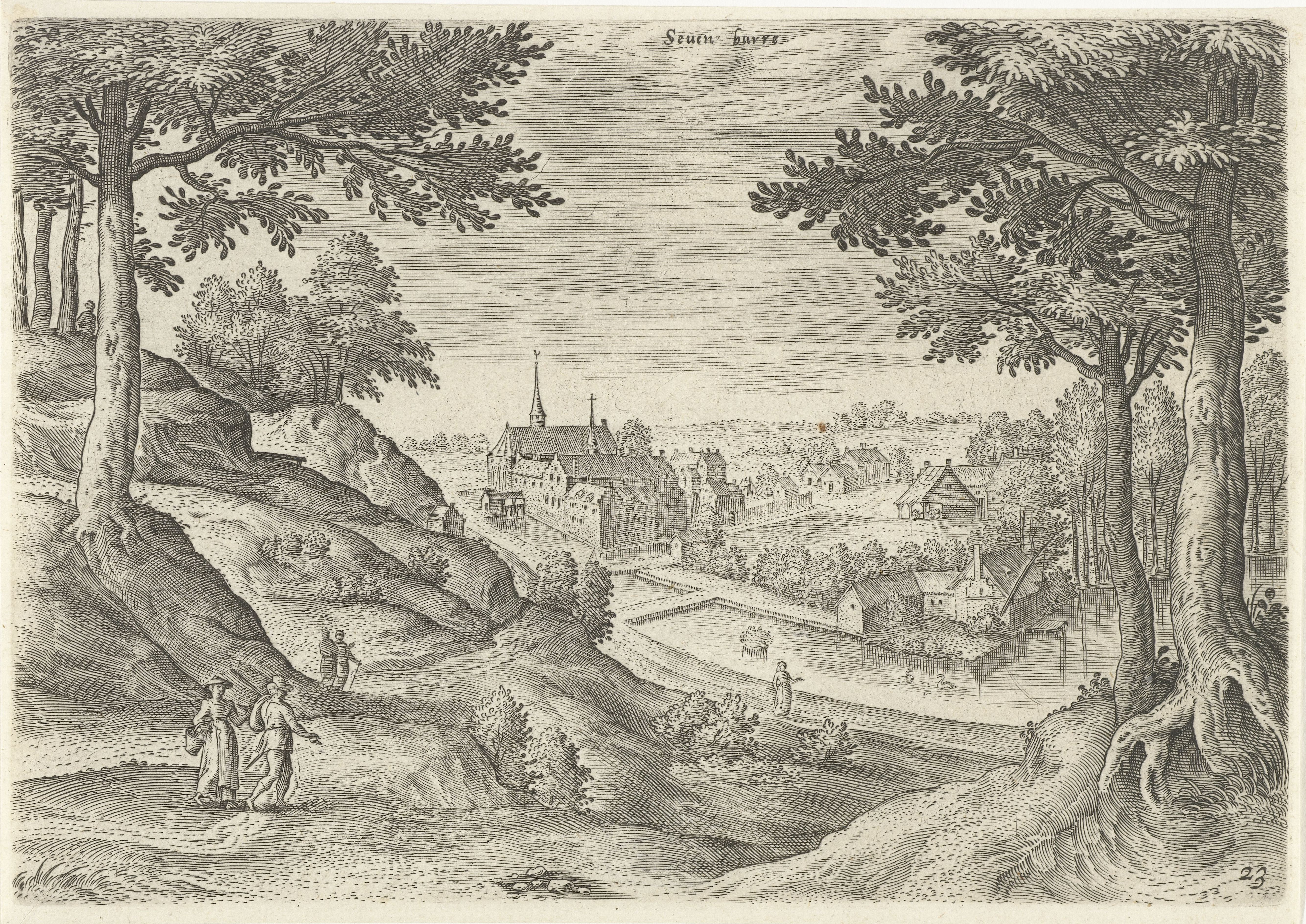 Etching by Hans Collaert (I) after Hans Bol-Jacob Grimmer, from a series of 24 views of Brussels and surroundings, published by Claes Jansz. Visscher (II) in the 16th century.